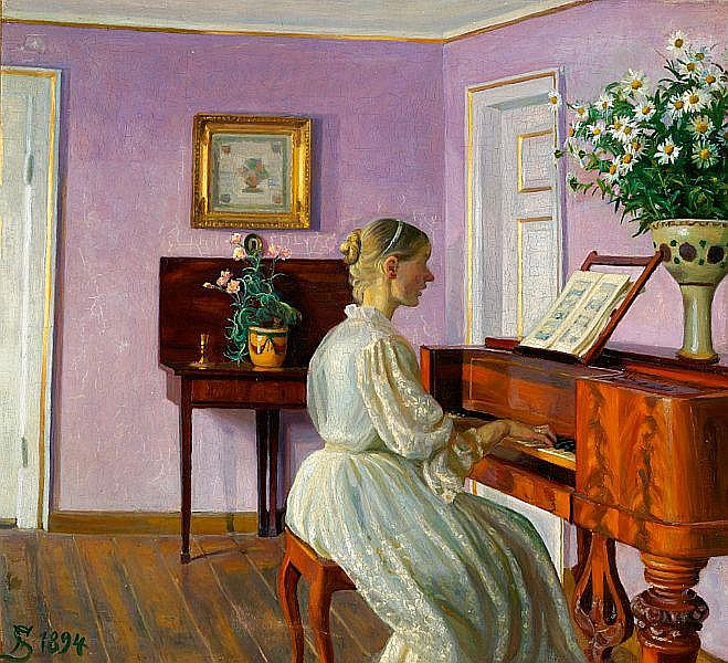 Dame ved Klaver (Anna Syberg)